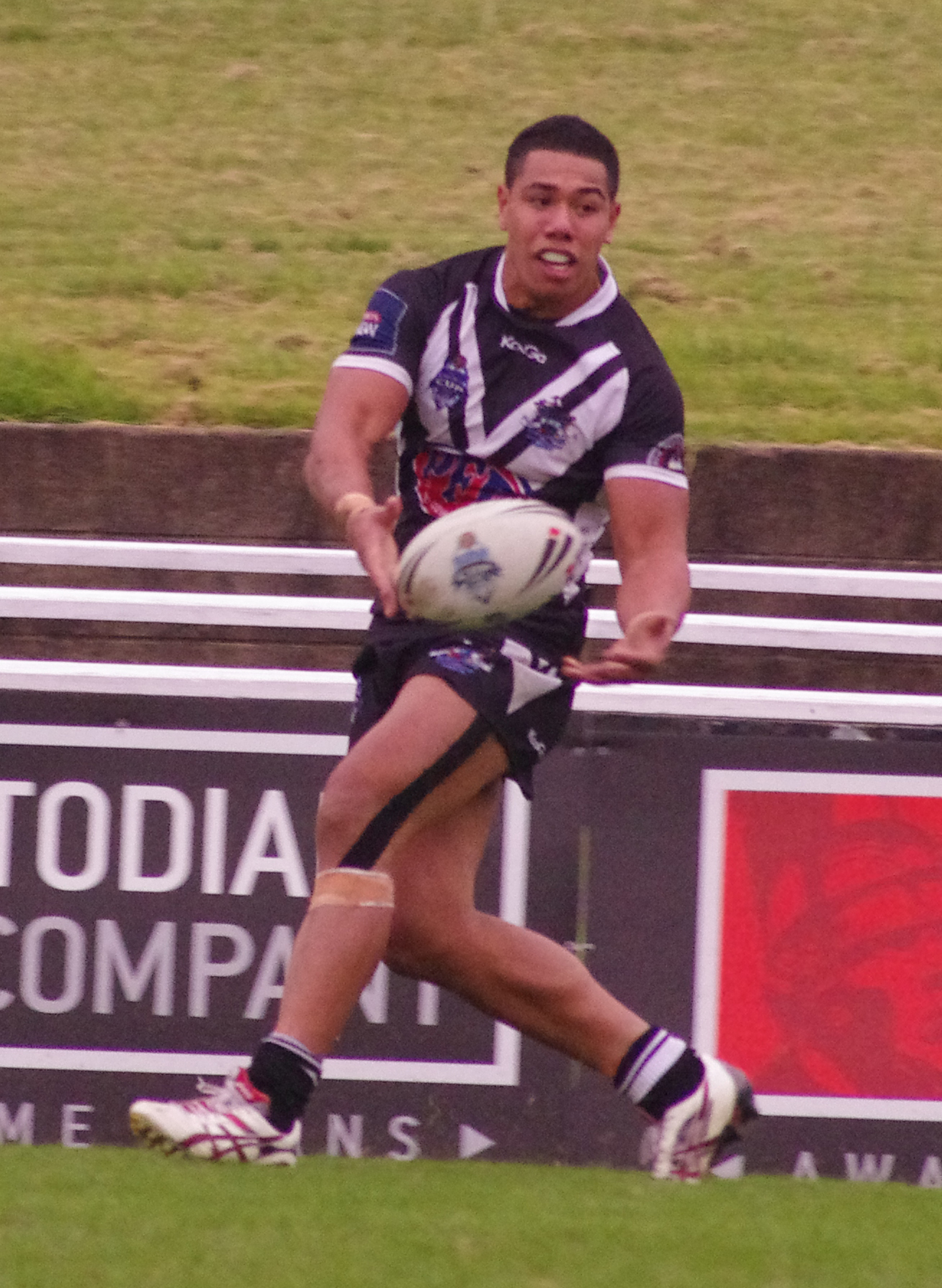 Vai Toutai